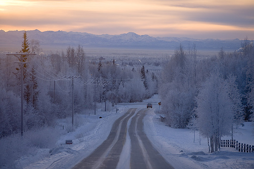 Fairbanks and the Alaska Range at midday during the winter solstice, viewed from the north. Joseph N. Hall, December 2005. The above license applies to this image at this resolution or lower only. Joseph N Hall 19:53, 31 August 2006 (UTC)